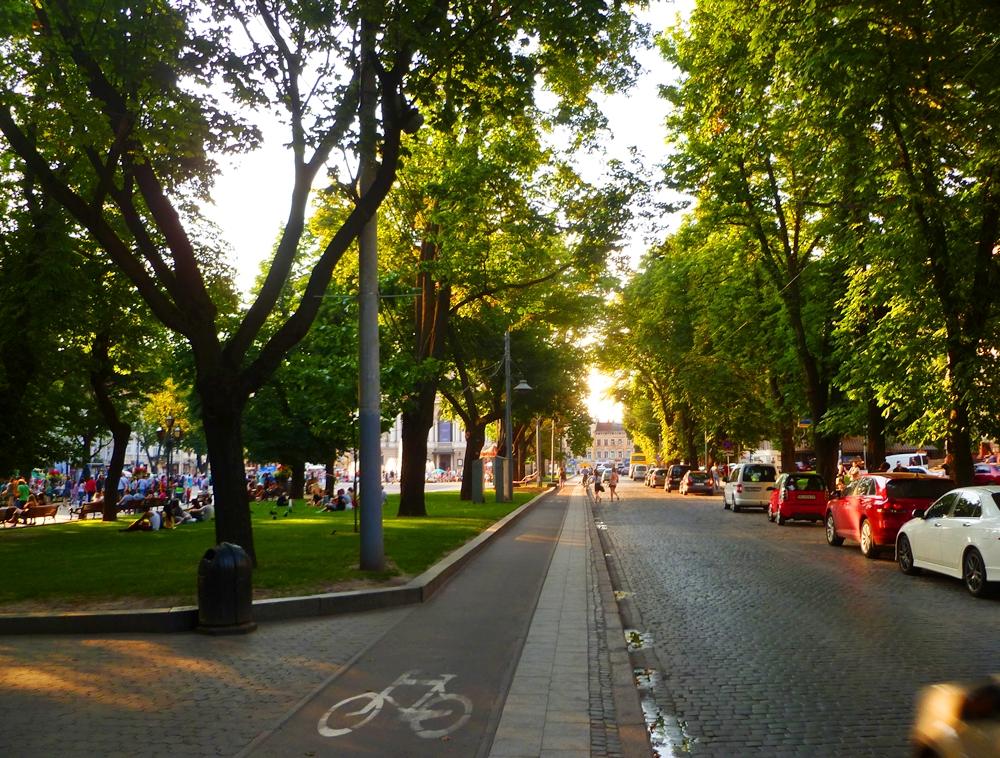 Lviv, Ukraine. Bikeway in the city centre